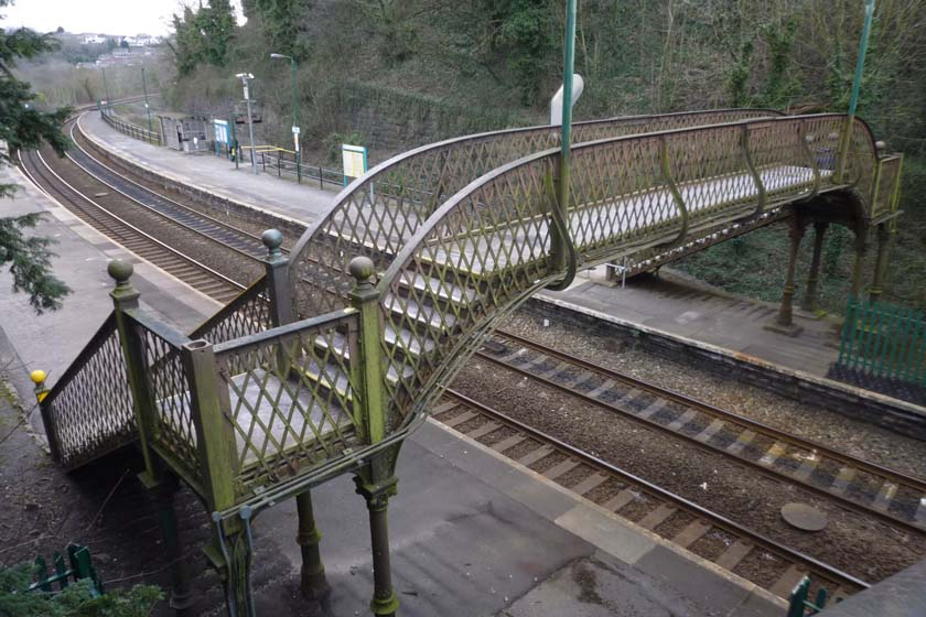 Late 19th century, Grade II listed footbridge at Cogan Railway Station near Penarth, South Wales. The bridge is made from cast iron, with Corinthian style columns.